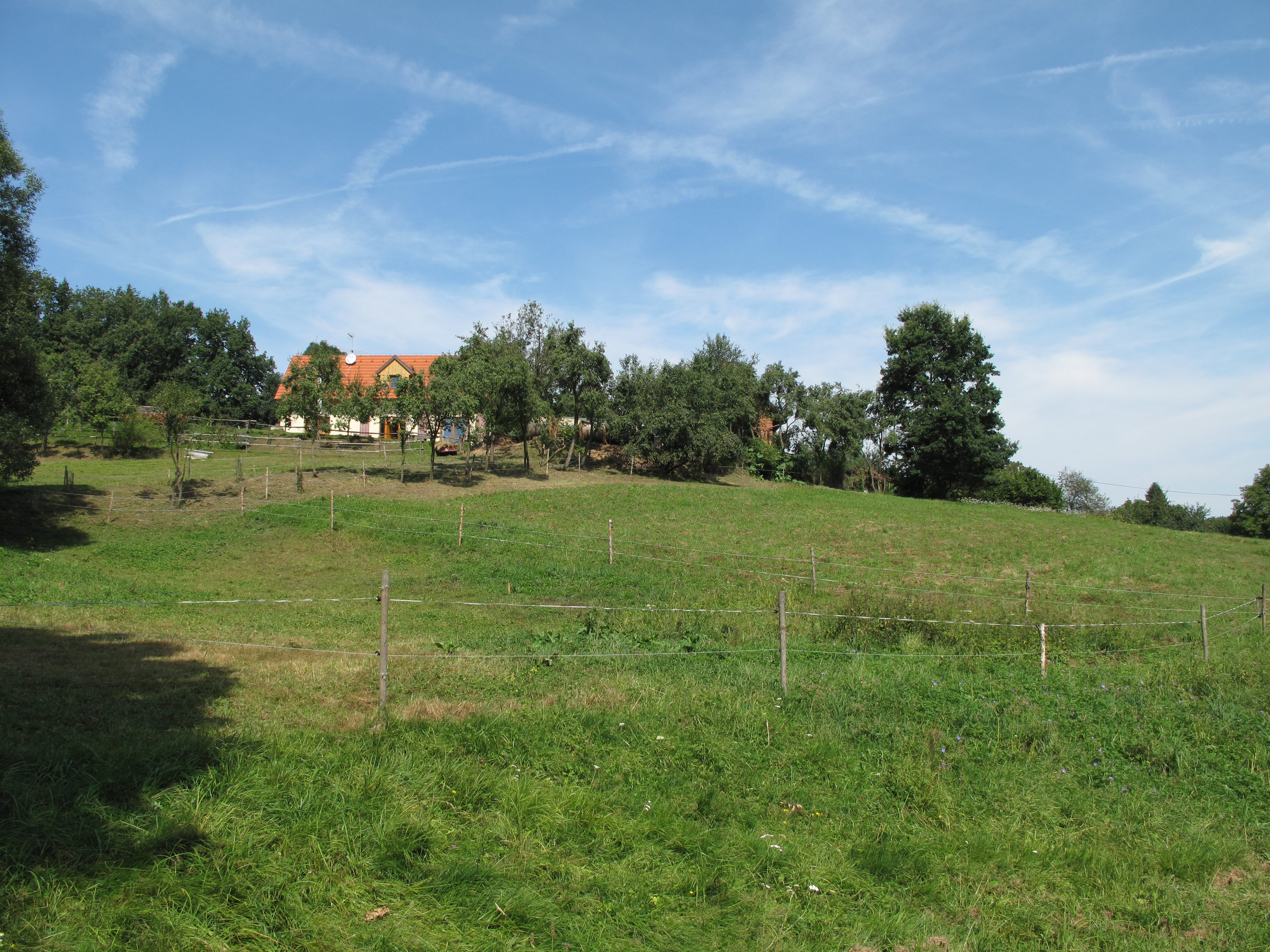 Pasture in Křivá Ves village, Prague-East District, Czech Republic.